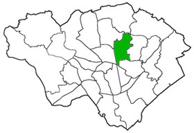 Map of Cyncoed electoral ward, Cardiff